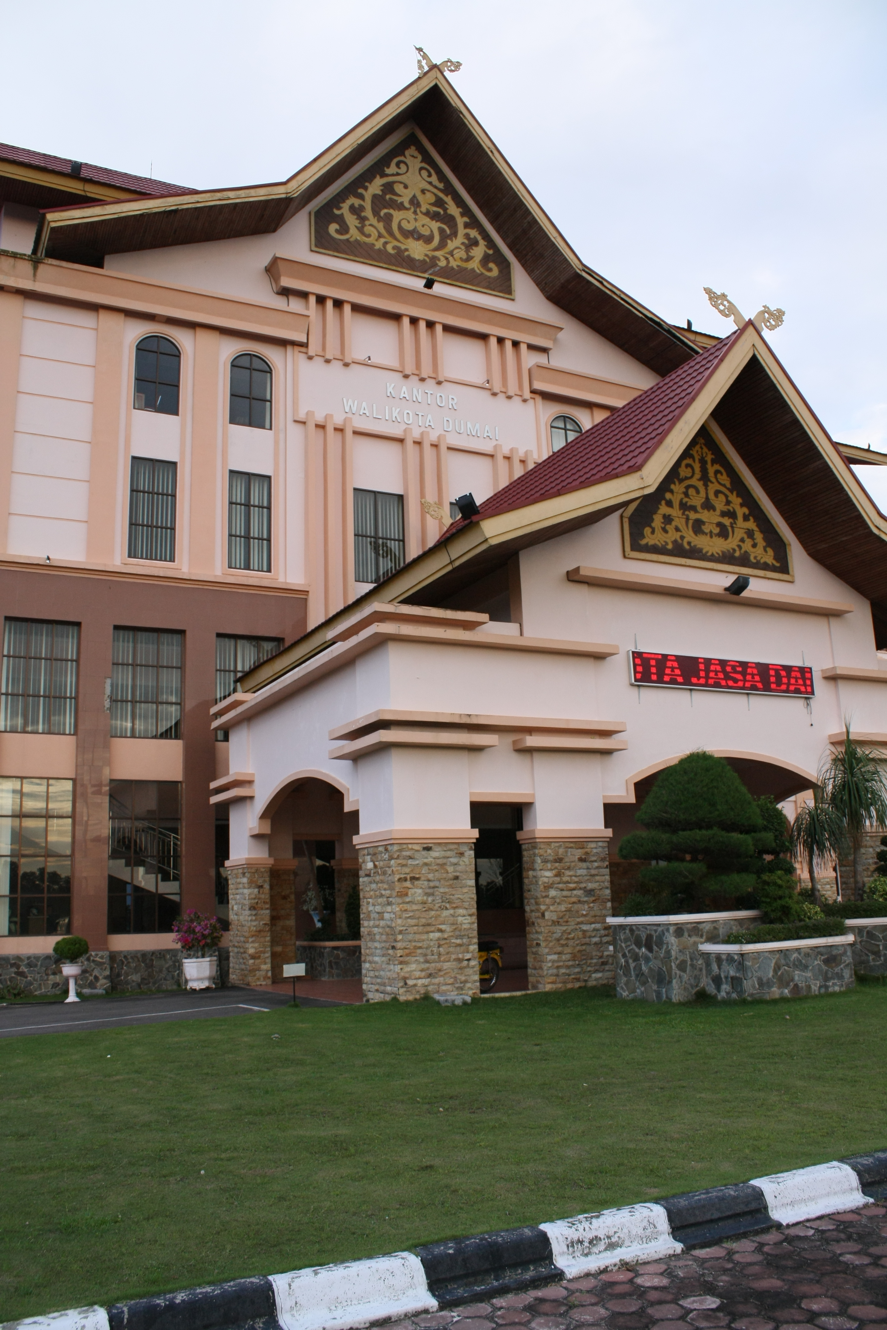 Dumai Major's Office, Indonesia.